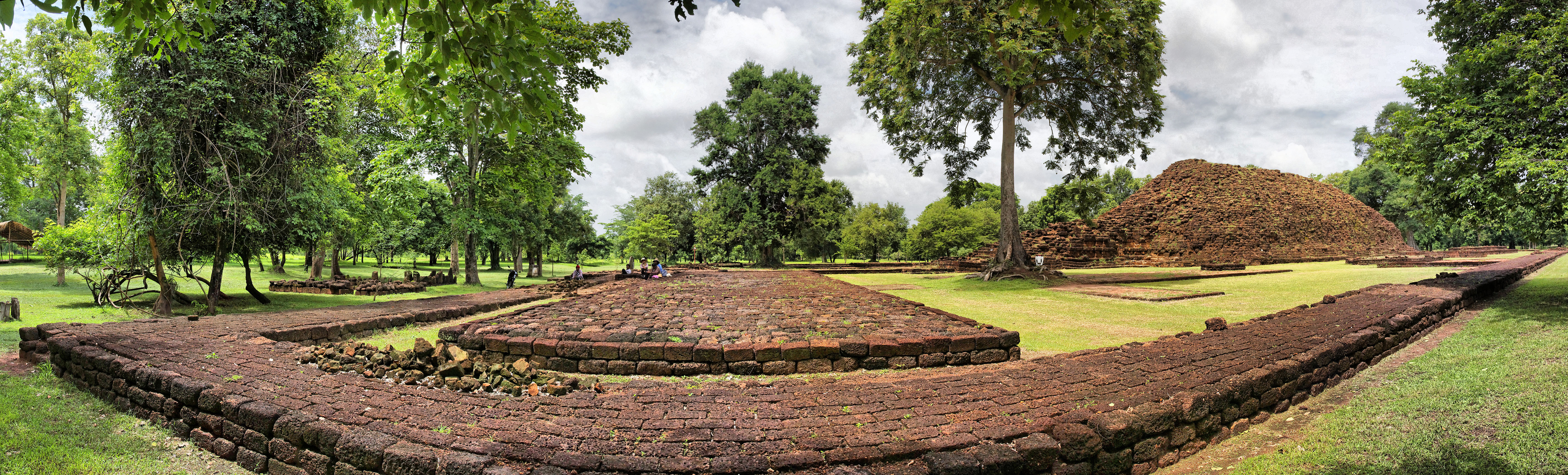 Khao Khlang Nai, Si Thep Historical Park, Si Thep District, Phetchabun Province, Thailand